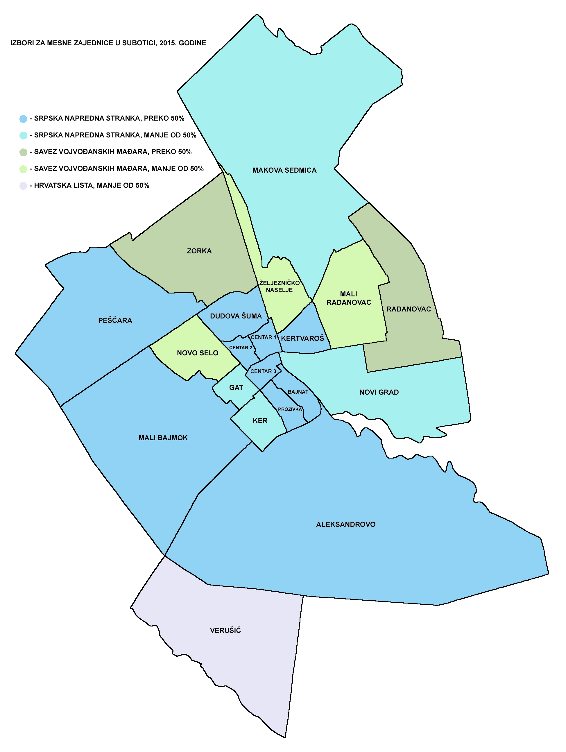 Local community elections in Subotica, 2015.